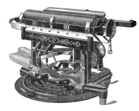 Woodcut of Edison Mimeograph Typewriter, manufactured by the A. B. Dick Co. starting in 1894, from an article in a stenography magazine. The accompanying text says it's price is $22, and claims a speed of 30 words per minute. This is known as an index typewriter: the typist turns the dial on the front to each letter, and presses the printing bar on the left side to print the letter. In spite of the name, it was not invented by Thomas A. Edison, but originally designed to cut stencils for the very popular Edison Mimeograph machine, made by Dick, then sold as a general purpose typewriter. There were three models in total and differed only in the number of characters they could type. They were designated models 1,2 & 3 and could cost up to $25 for the top model. A commercial failure, it was only sold for a few years. For more information, see Edison machine, The Virtual Typewriter MuseumAntique special purpose typewriters, Early Office Museum Antique Typewriter Collectors Web Site